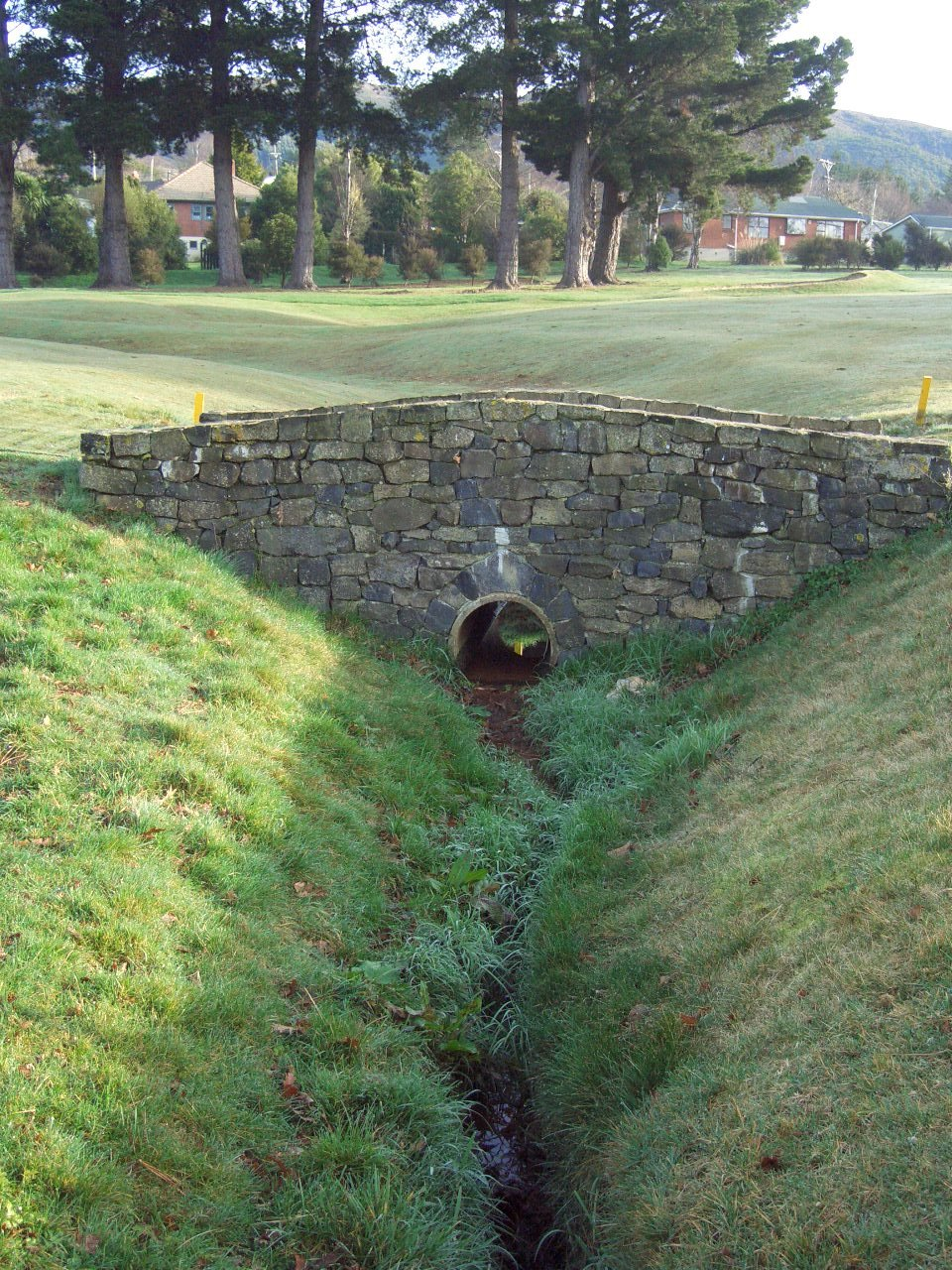 The Teph Service Bridge, an ornamental stone footbridge named after Otago golf Club life member Teph Service, from under which the source of the Balmacewan branch of the Kaikorai Stream first flows above ground. The grass swale beyond the bridge is an old watercourse, flowing only in heavy rain. The bridge and watercourse represent a hazard under golfing rules. Please credit Wikimedia Commons when publishing this photo.